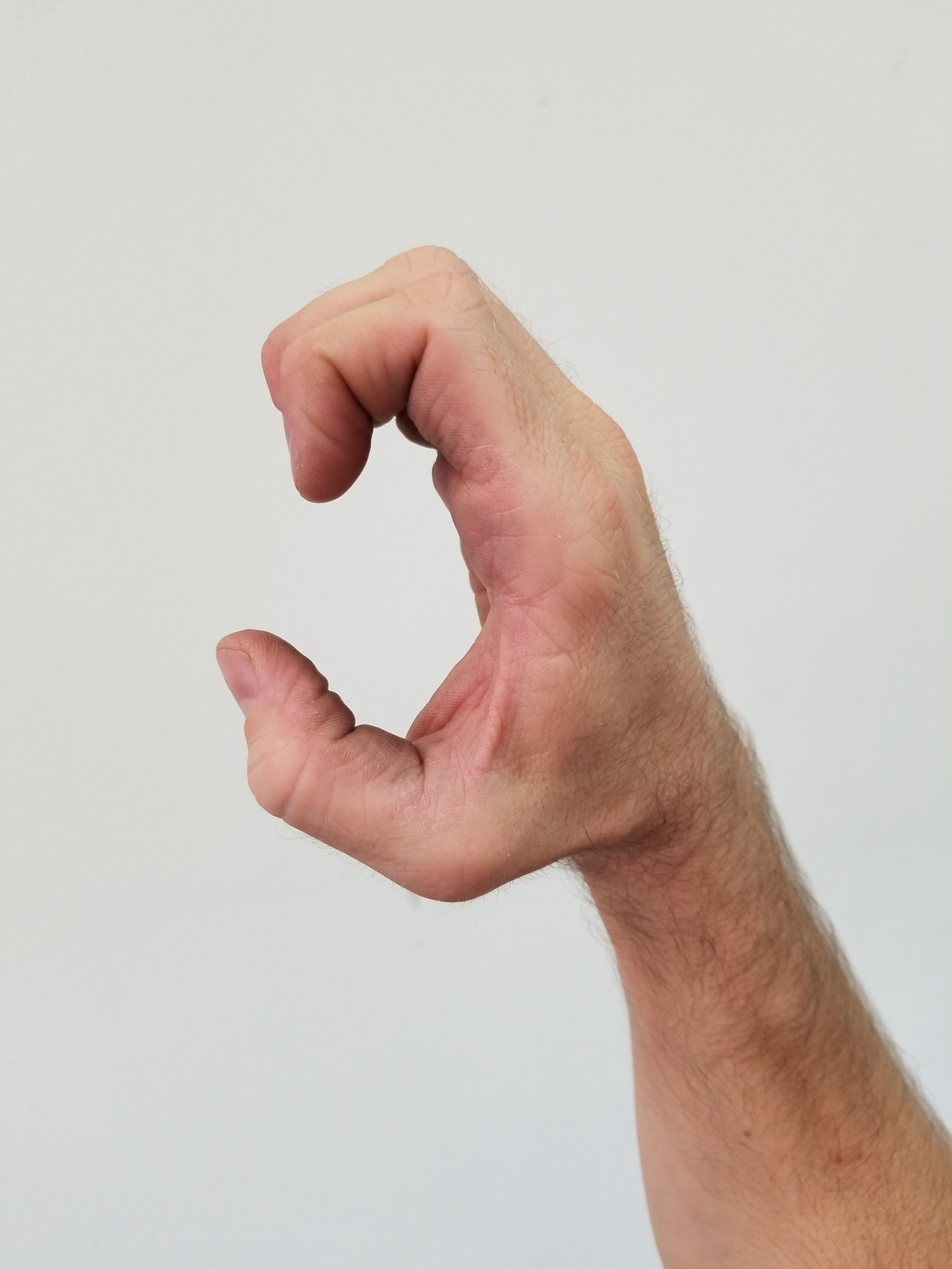 one image of the eagle claw hand position as found in the Ying Jow Pai system.